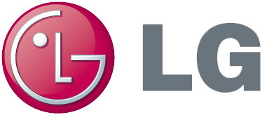 High res LG 2008 Logo